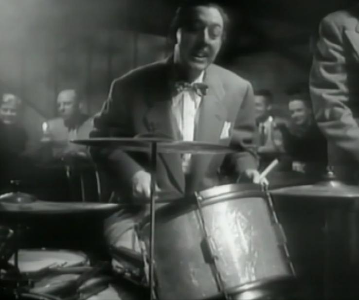 Ray Bauduc in The Fabulous Dorseys (cropped screenshot)